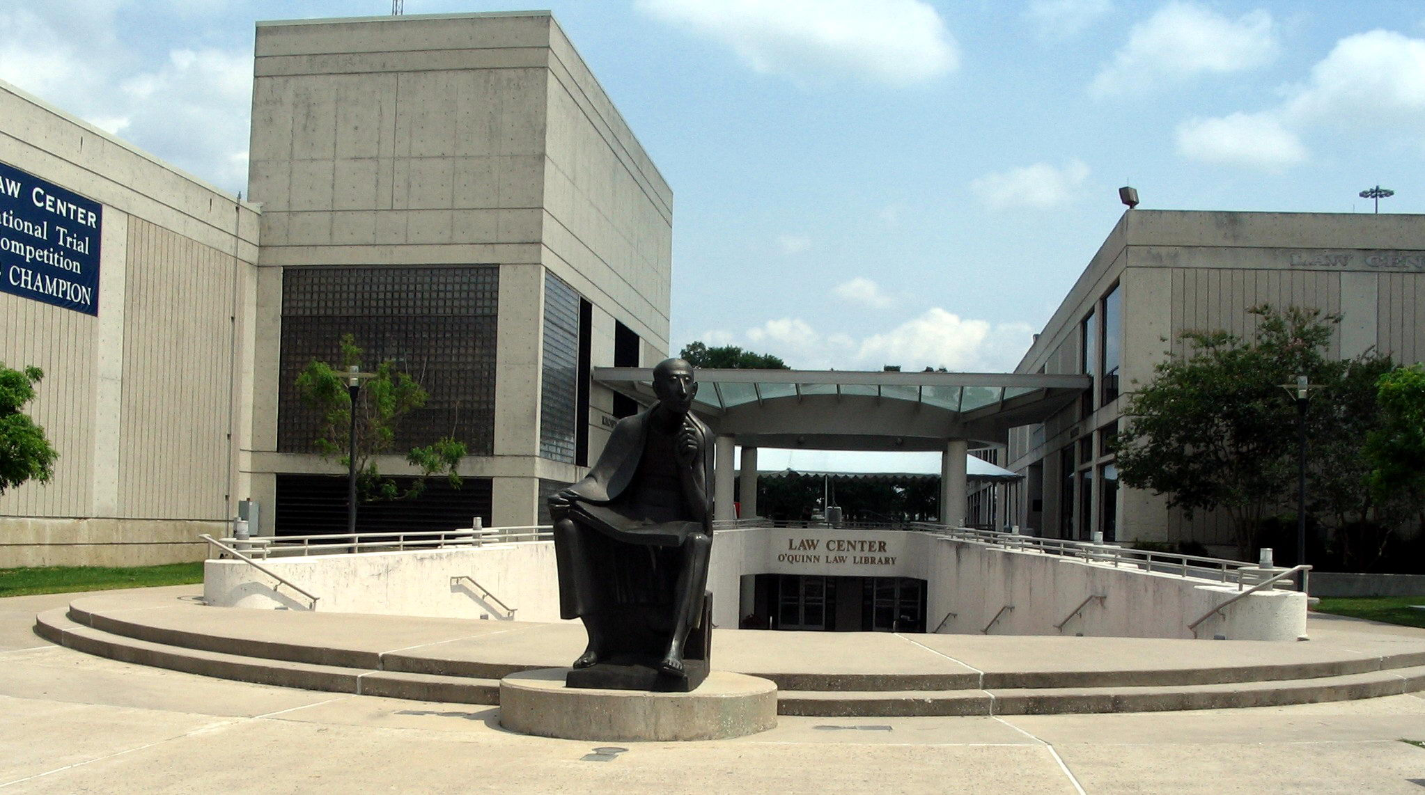 A photo taken of the front of the UH Law Center on Graduation Day.